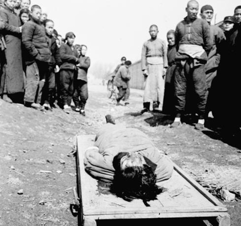 The body of yoshiko kawashima on display at Hopei Model Prison after her execution, Peiping (today Bejing), China